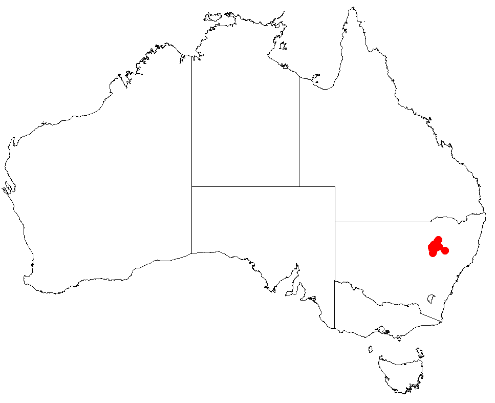 Macrozamia polymorpha occurrence data downloaded from Australasian Virtual Herbarium using